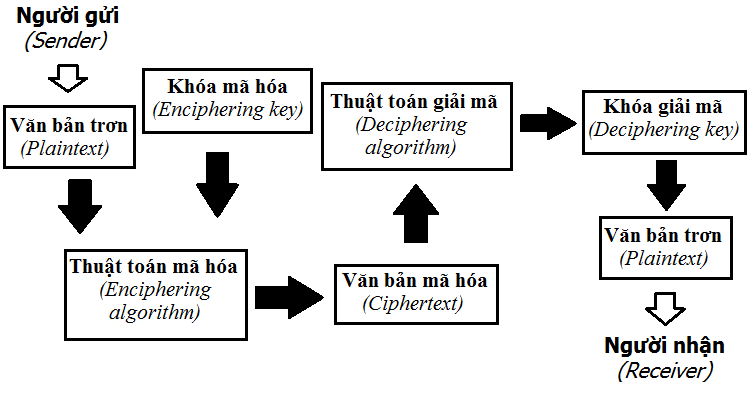 Outline of a generalized cryptosystem